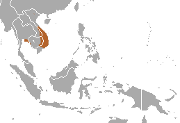 Northern Smooth-tailed Treeshrew (Dendrogale murina) range